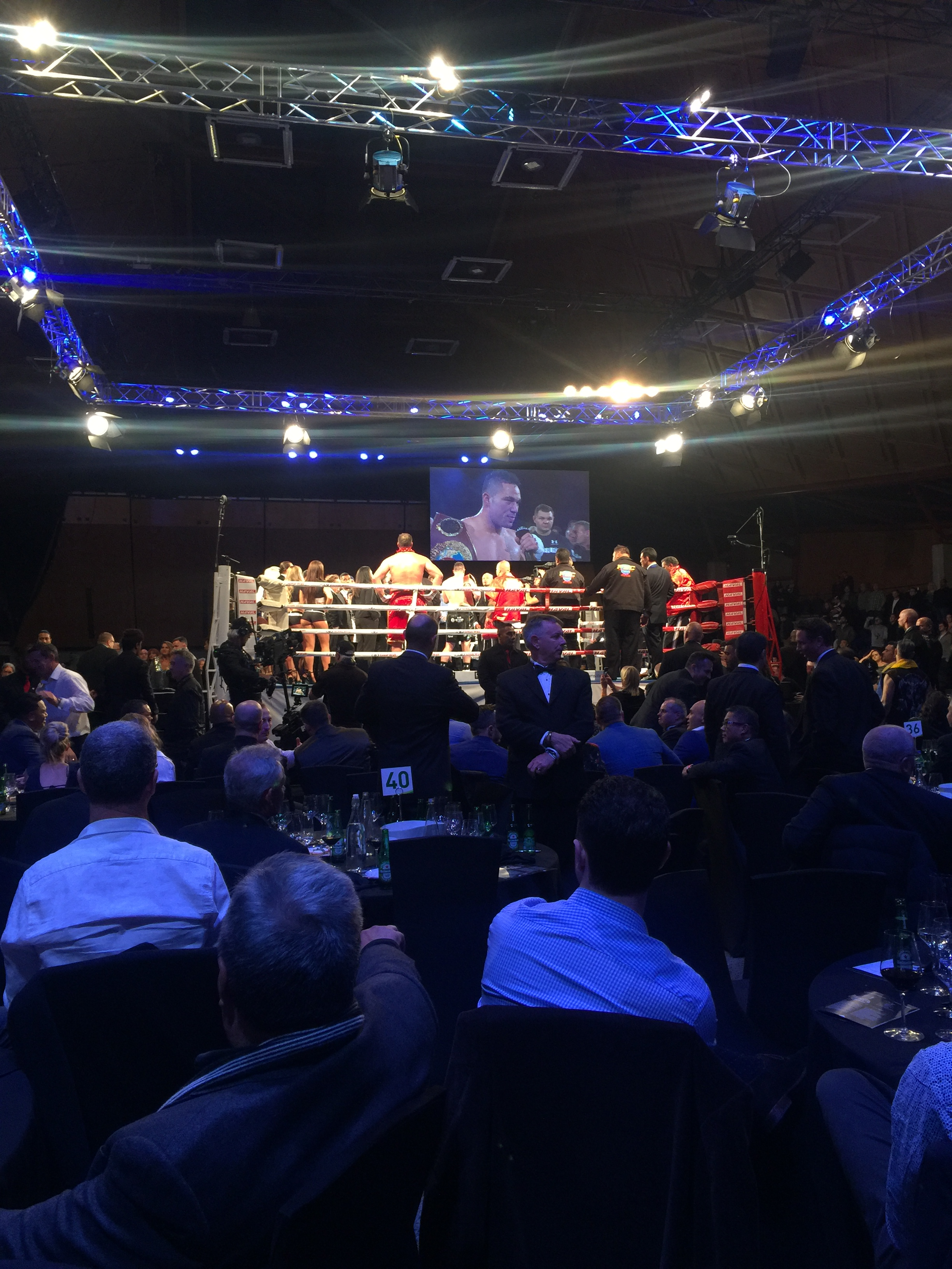 Joseph Parker's first successful world title defence speech.